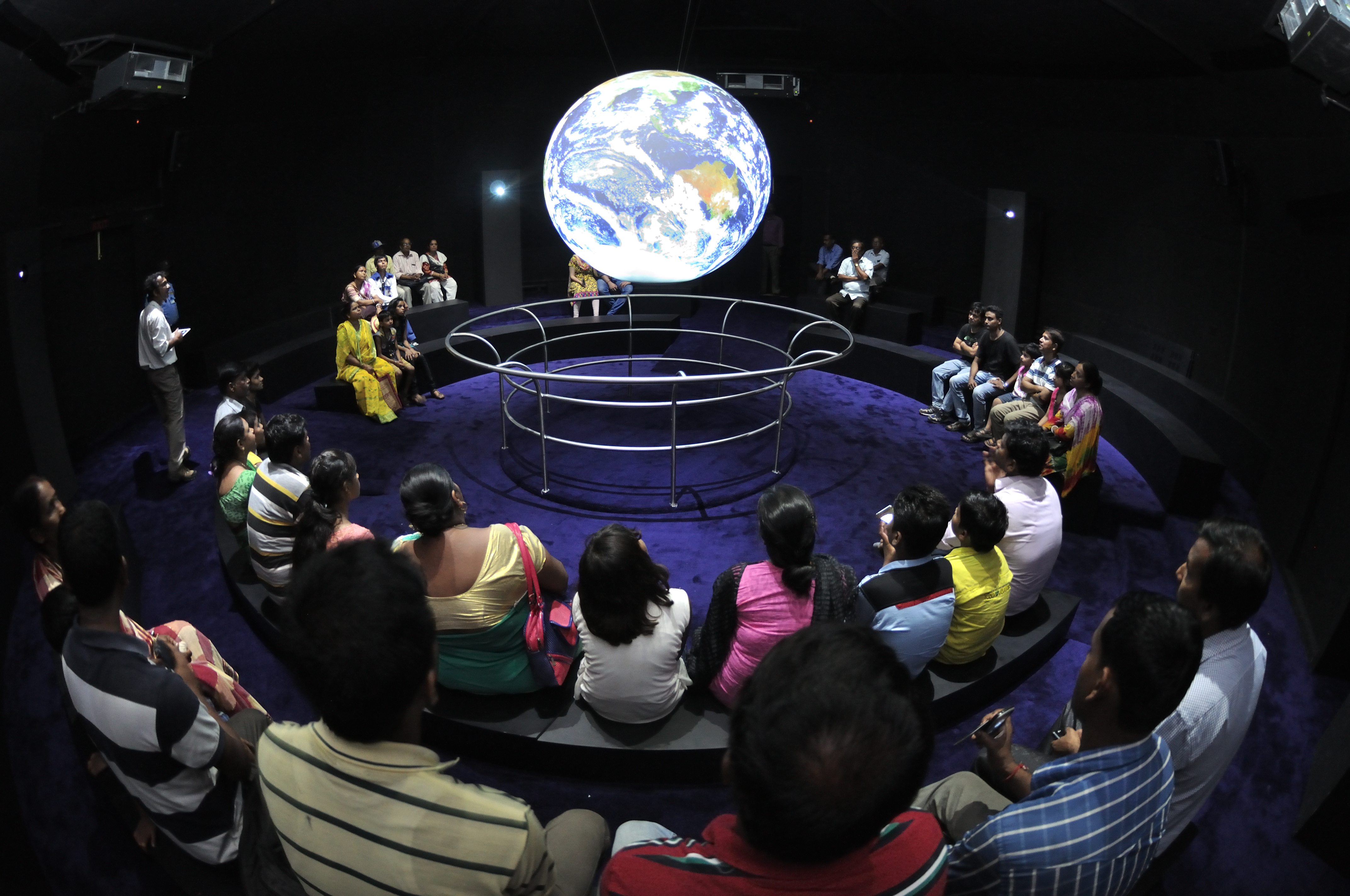 The Science on a Sphere, Science City, Kolkata.